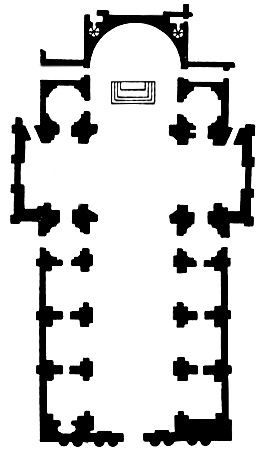 released into public domain on Immagine:SantAndrea pianta.jpg 2007-05-07T23:31:19Z Cydebot (Talk